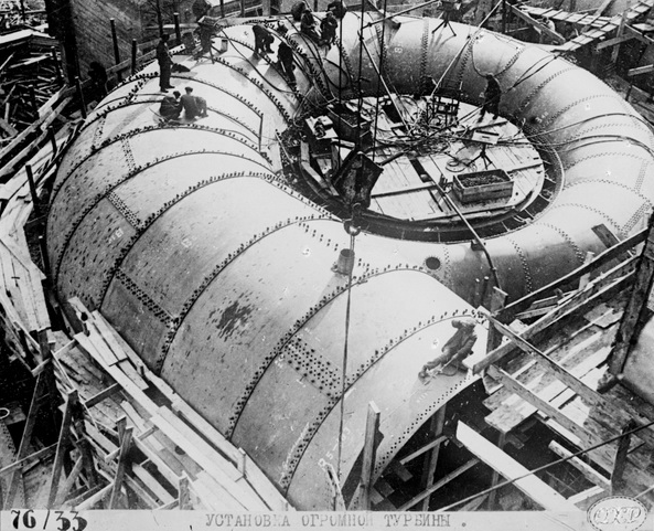 Turbine construction, DneproGES, 1932